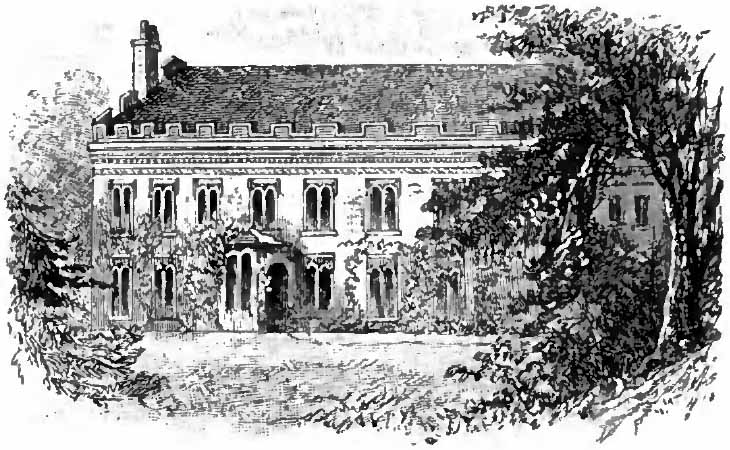 Drawing of Otsego Hall, the residence of United States author James Fenimore Cooper. A few years after his death it burned, and the surrounding land was sold by the heirs. His daughter, Susan Fenimore Cooper, incorporated some of the bricks in a residence she built. It had been built by his father (completed 1799).